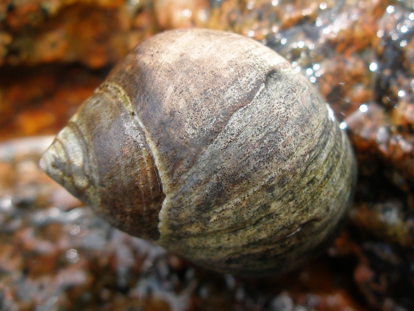 Live sea snail at the coast of Veddö naturreservat in Sweden, June 2005.